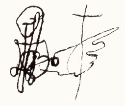 Evdemon I, Catholicos of Georgia. Signature